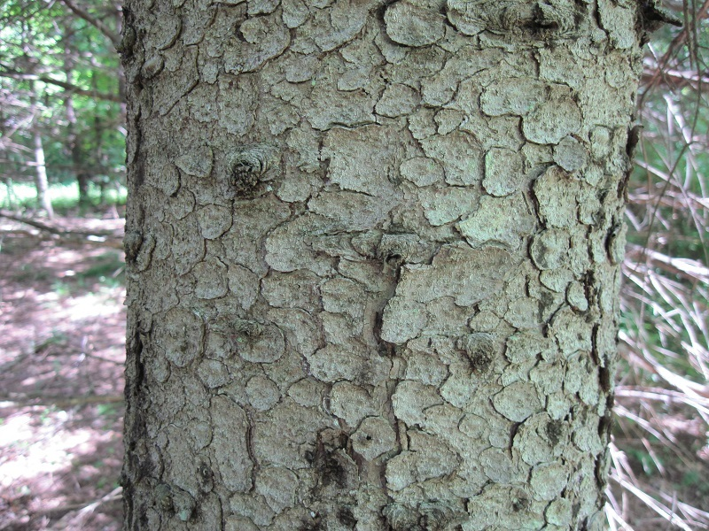 Bark of a White Spruce tree (Picea glauca) growing in Hollis, New Hampshire along a trail.